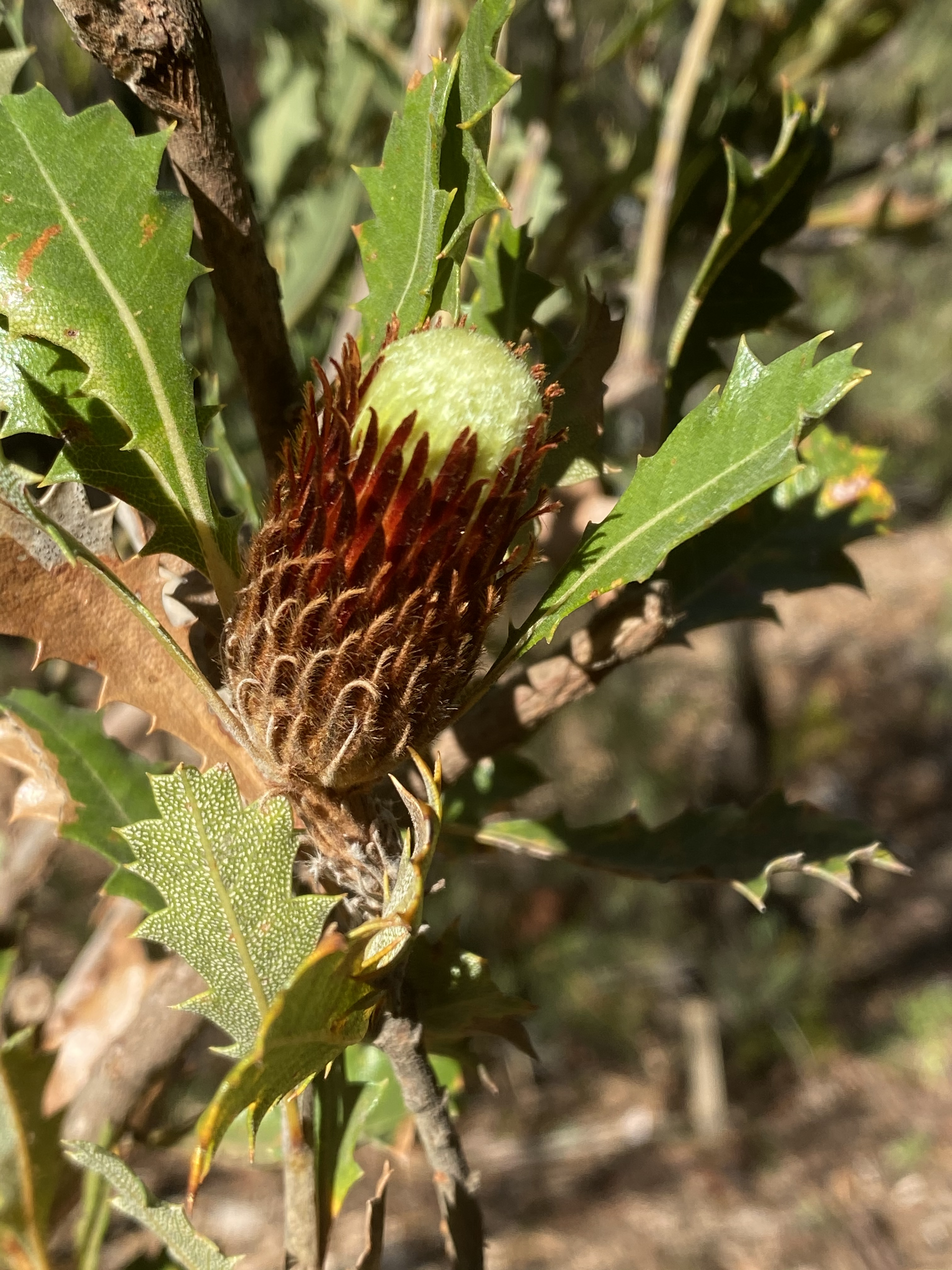 Banksia heliantha flower & foliage